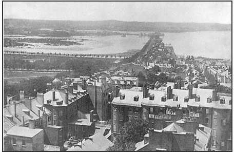 Historic photo of the mill dam in Boston's back bay taken from the State House from an unknown photographer